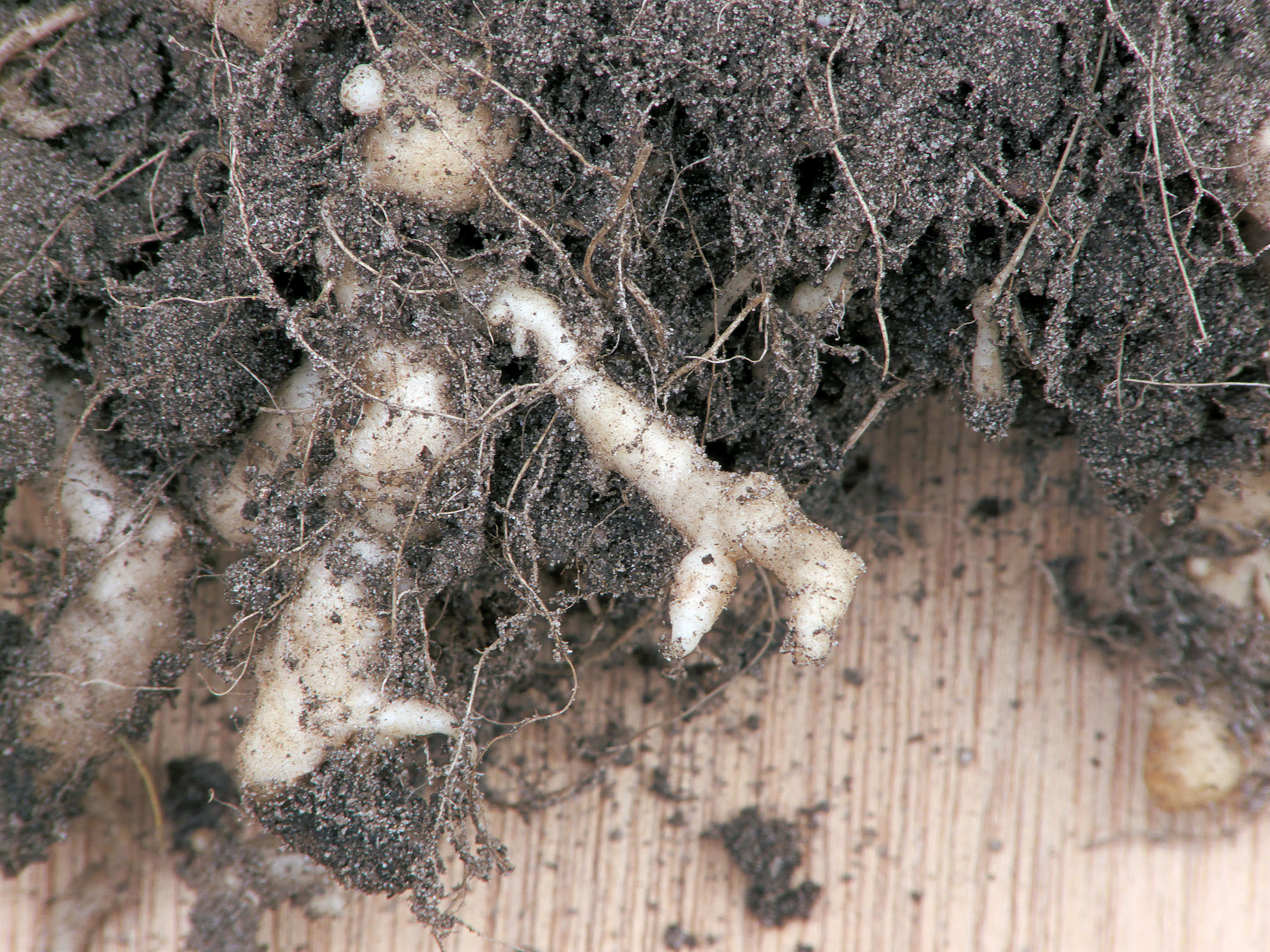 Plasmodiophora brassicae on cauliflower